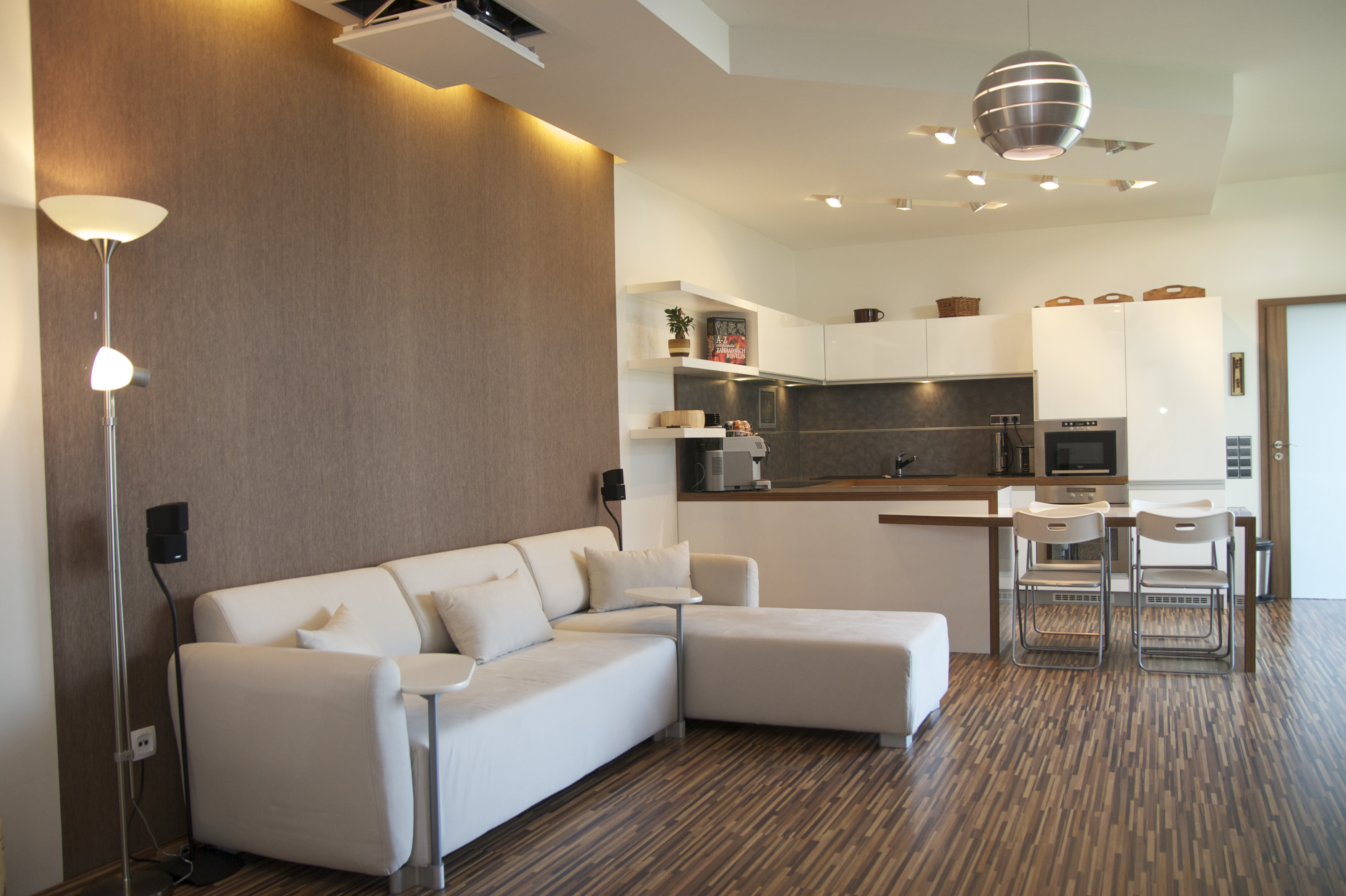 Interior of an intelligent building